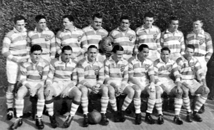 The Argentine squad that won the first South American rugby championship